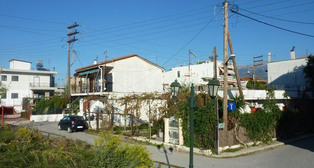 Anapirika Iteon, neighborhood of Patras, Achaia, Greece.